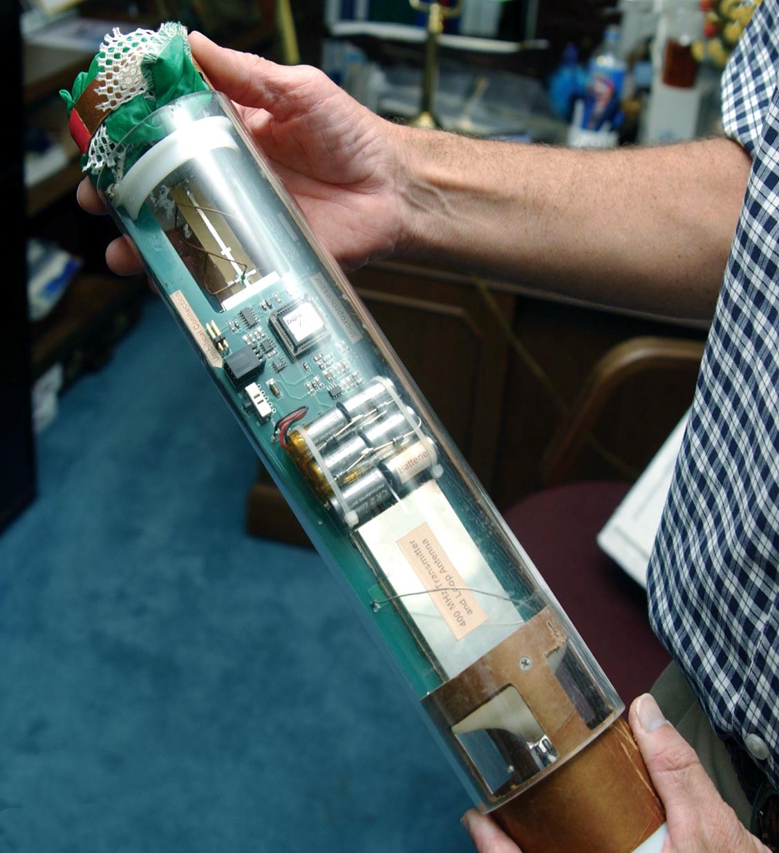 Picture of a dropsonde.